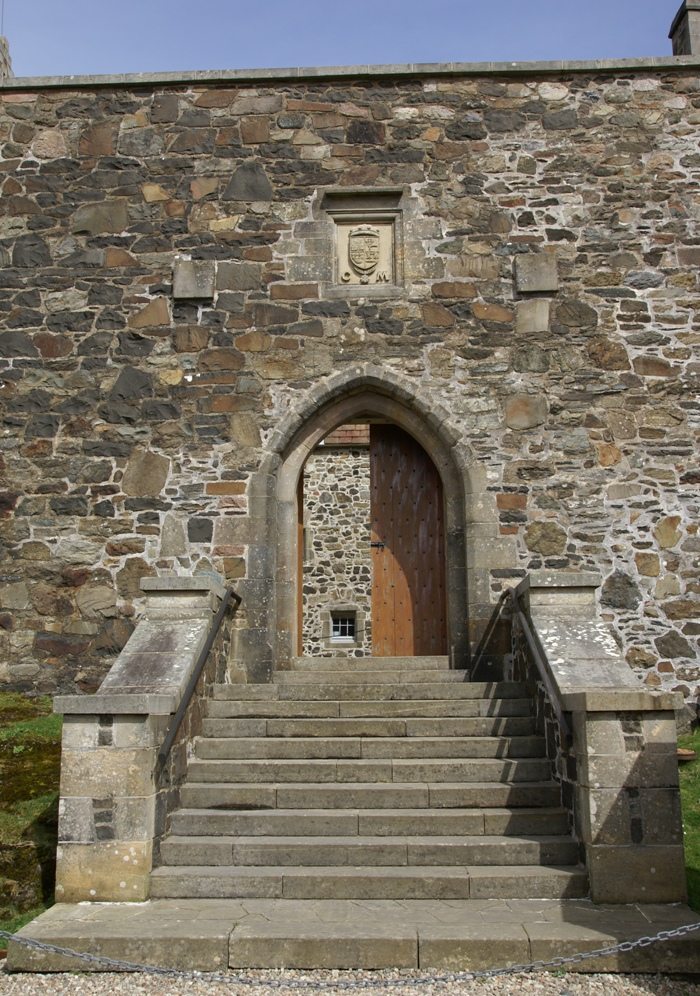 Duart Castle, Isle of Mull (Scotland) - main entrance